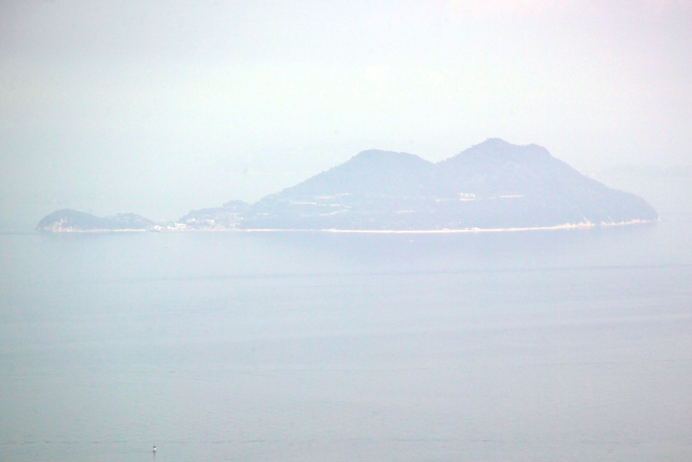 This photograph shows Ogishima 男木島, an island in the Seto Inland Sea, administered by the city ofTakamatsu, Kagawa Prefecture, Japan. The view is from Yashima. I took the photo and contribute my rights in the file to the public domain.